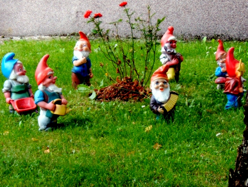 seven garden gnomes from one garden in Schlag, Austria. Photographed by K. Bilek, August 2005